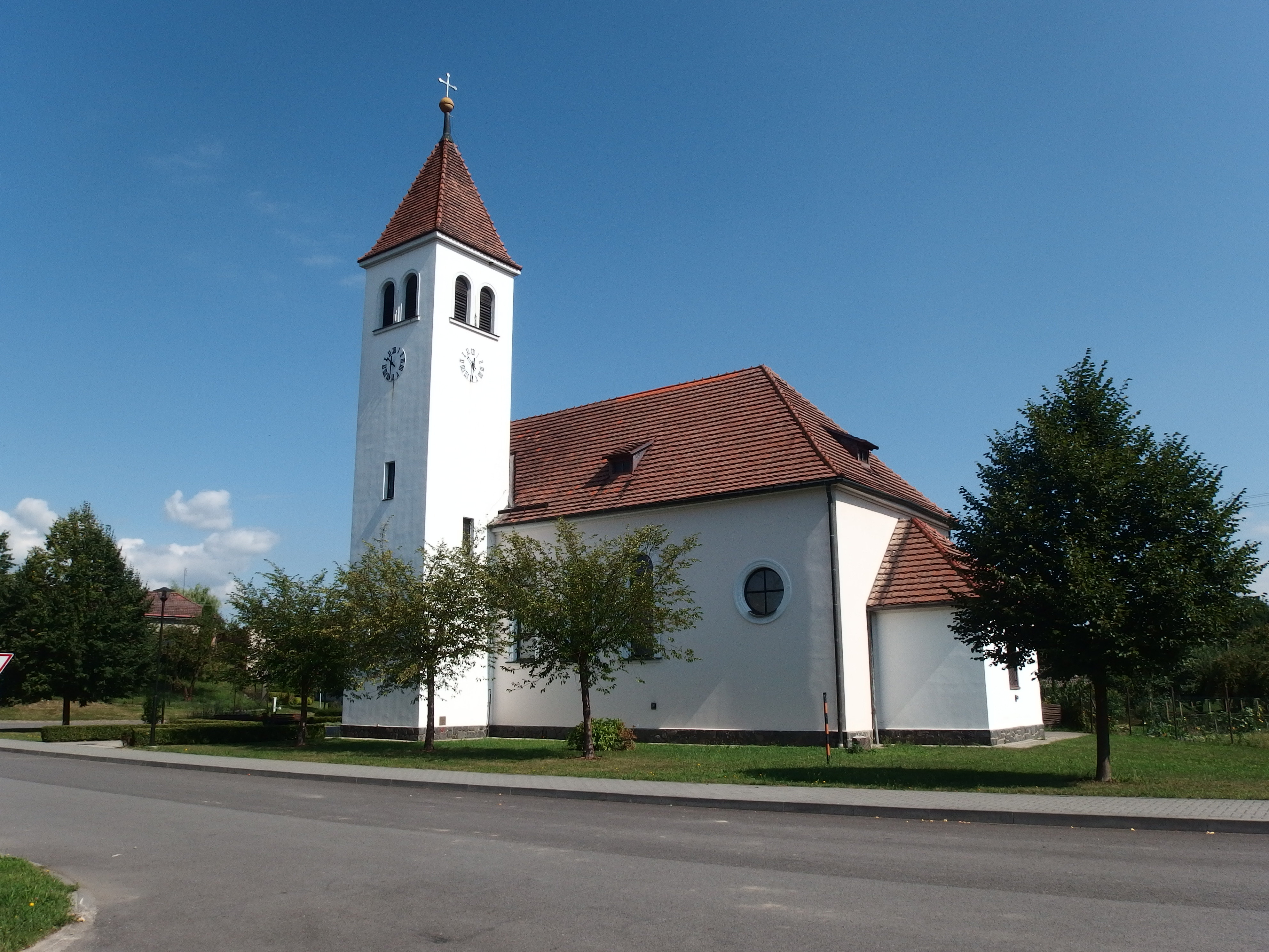 Ústí, Přerov District, Czech Republic.